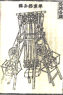 Leverage mechanics invented by Jeong Yak-yong to assist in the construction of the Hwaseong fortress